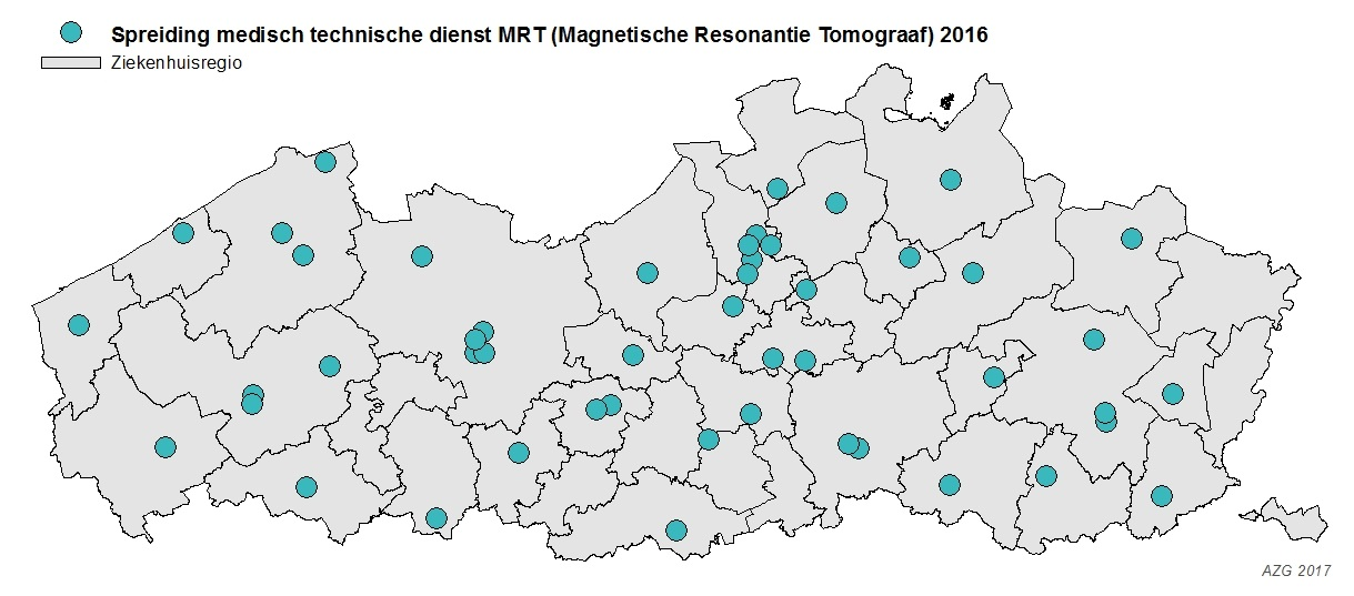 Geographical distribution of medico-technical services Magnetic Resonance Tomography in 2016 in Flanders